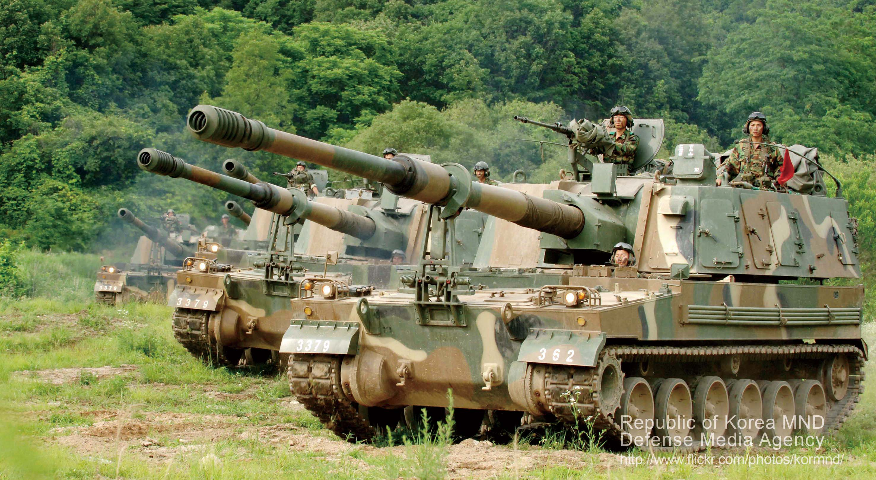 2010 국방화보 Rep. of Korea, Defense Photo Magazine K- 9 자주포 K-9 self-propelled artillery